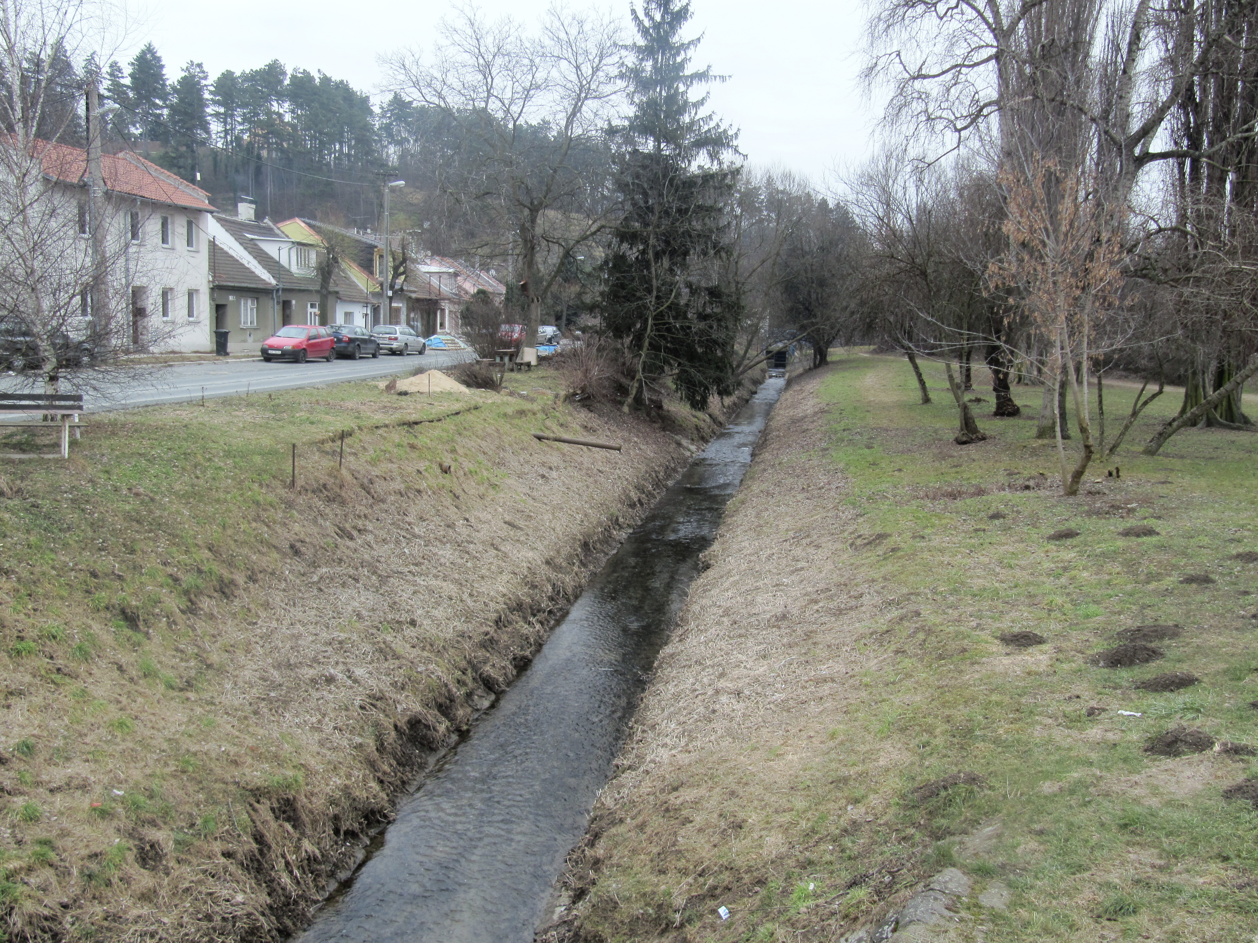 Brno, part Královo Pole, Czech Republic. Ponávka brook.